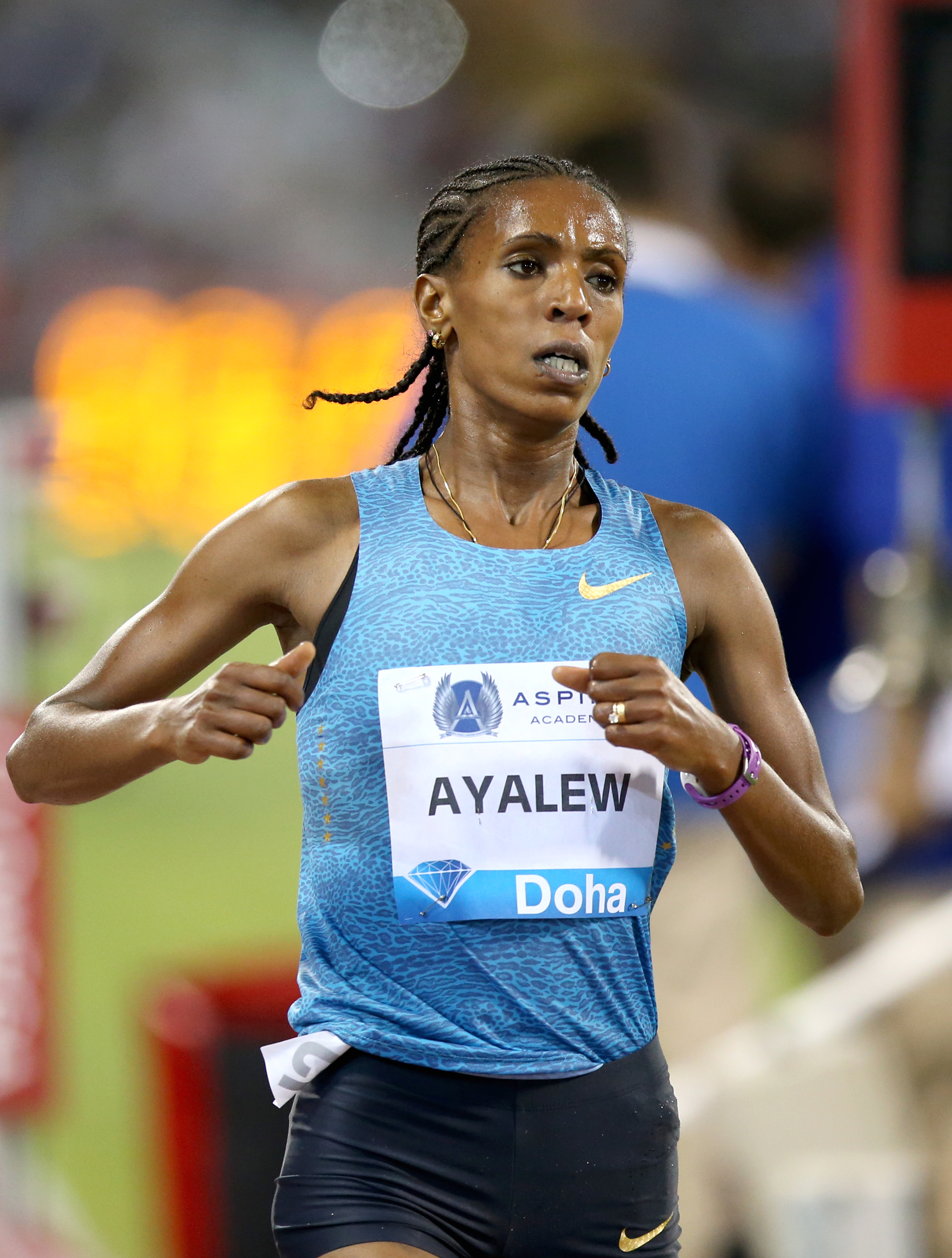 Ethiopia's Hiwot Ayalew finishes second in women's 3,000 steeplechase race during the Doha Diamond League meet. Pic by Vinod Divakaran